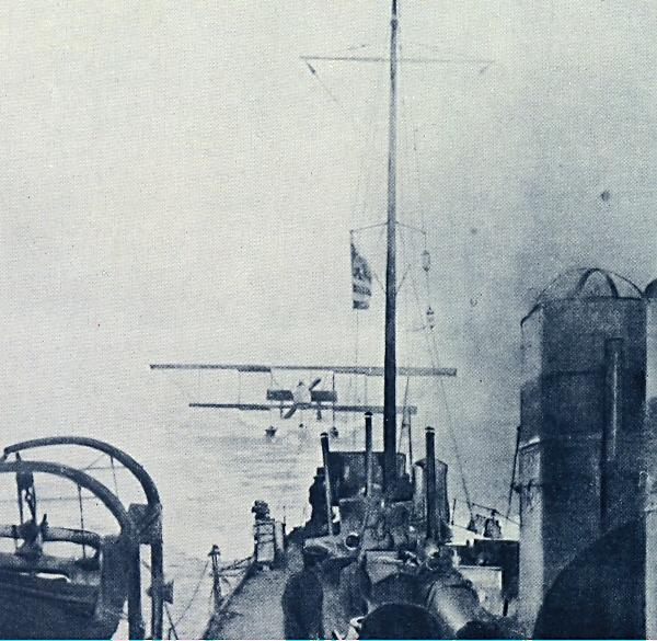 Greek Destroyer Velos collects Henry Farman aircraft of Moutoussis-Moraitinis after the first air-naval operation over the Istanbul.